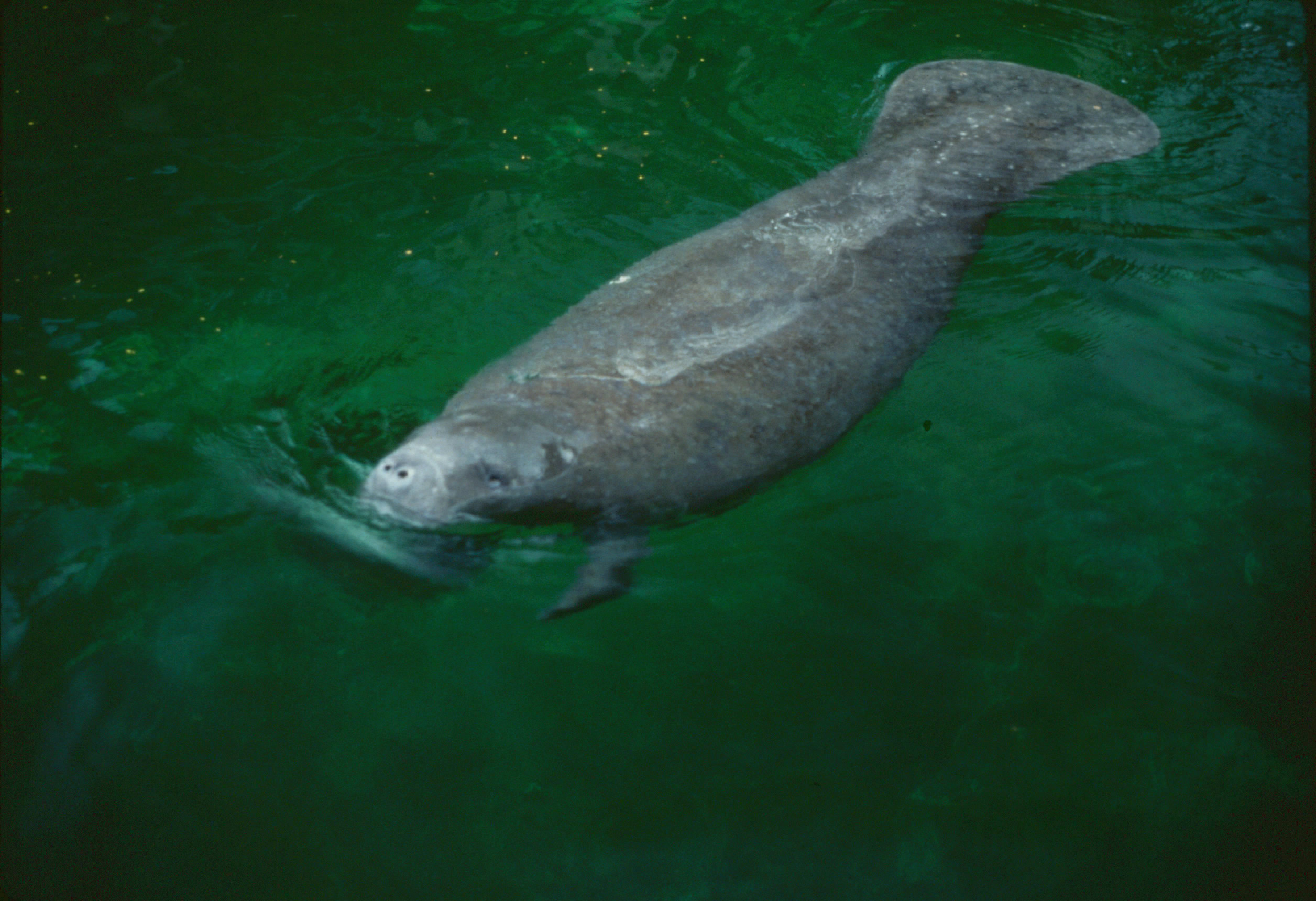 Manatee, Everglades National Park